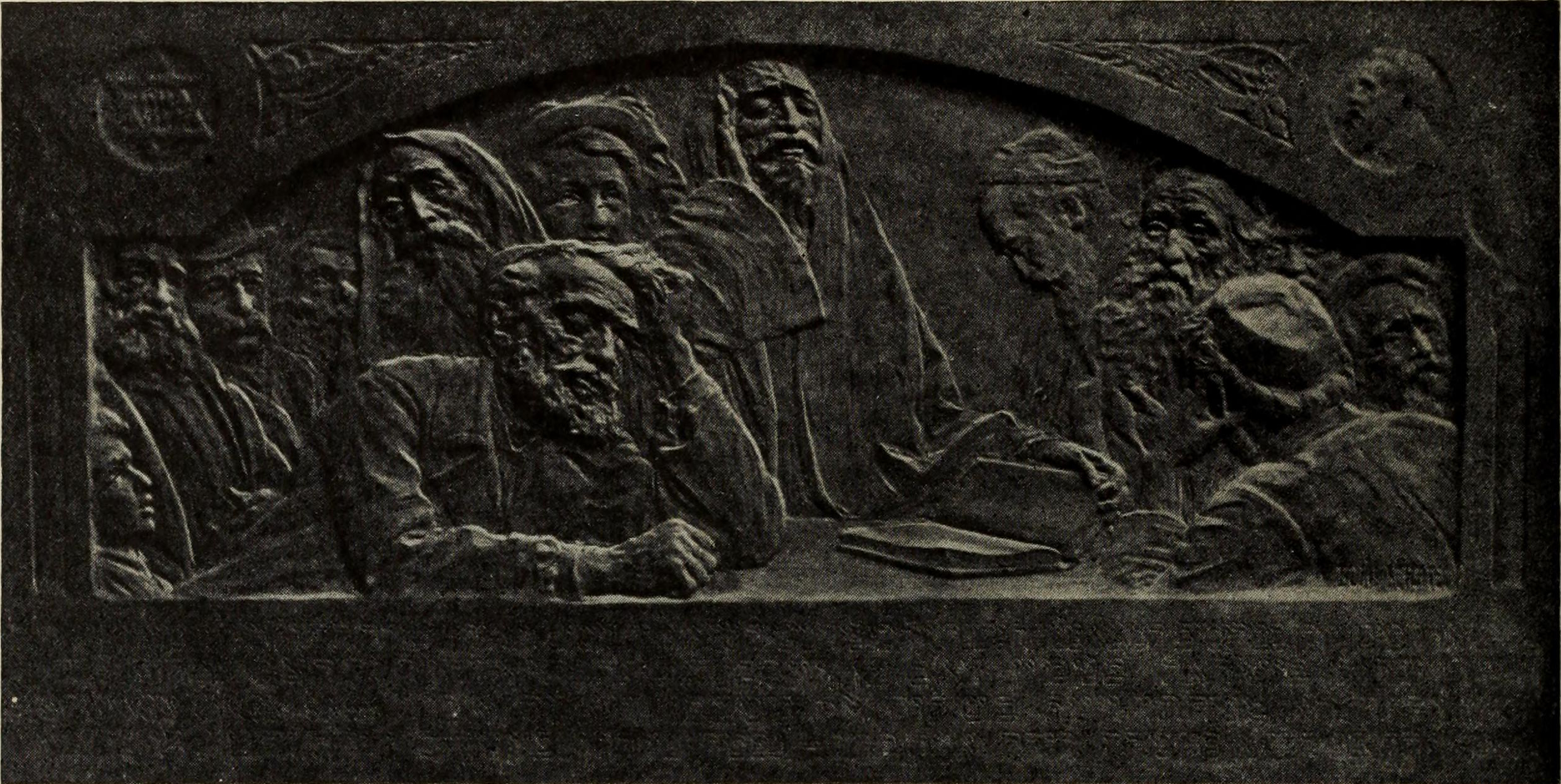 Yiskor for Herzl. Bas-Relief by Prof. Boris Schatz of Bezalel.